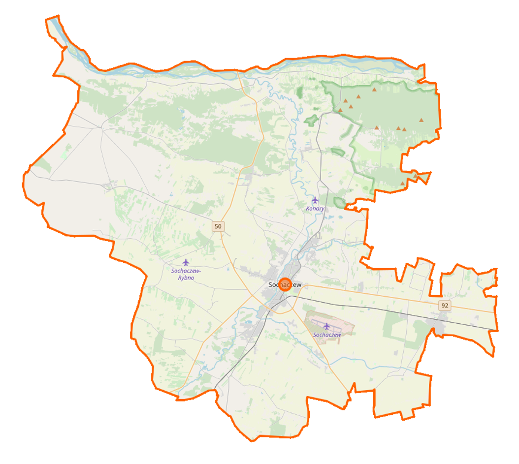 Map of Powiat sochaczewski, Poland This map of Powiat sochaczewski was created from OpenStreetMap project data, collected by the community. This map may be incomplete, and may contain errors. Don't rely solely on it for navigation.